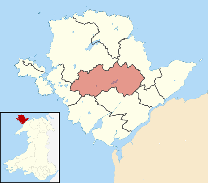 Location map of Canolbarth Môn electoral ward on the island of Anglesey / Ynys Mon